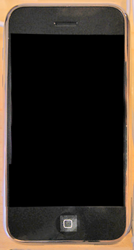 iPhone 3G, a smartphone made by Apple Inc..